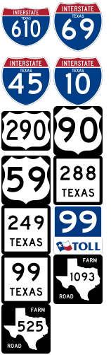 This image contains the signs for all highways in Houston.